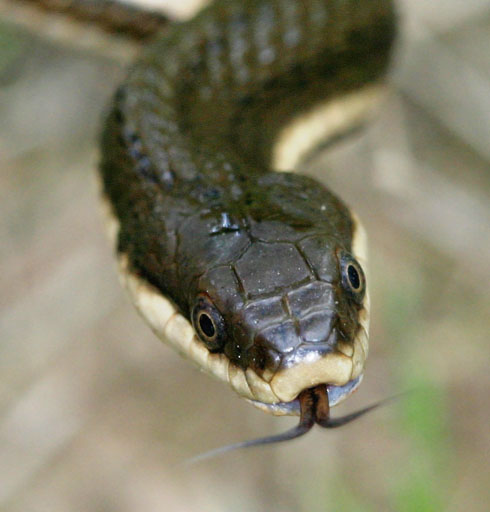 Queen Snake, Regina septemvittata. Location: Eno River State Park, Orange County, North Carolina, United States